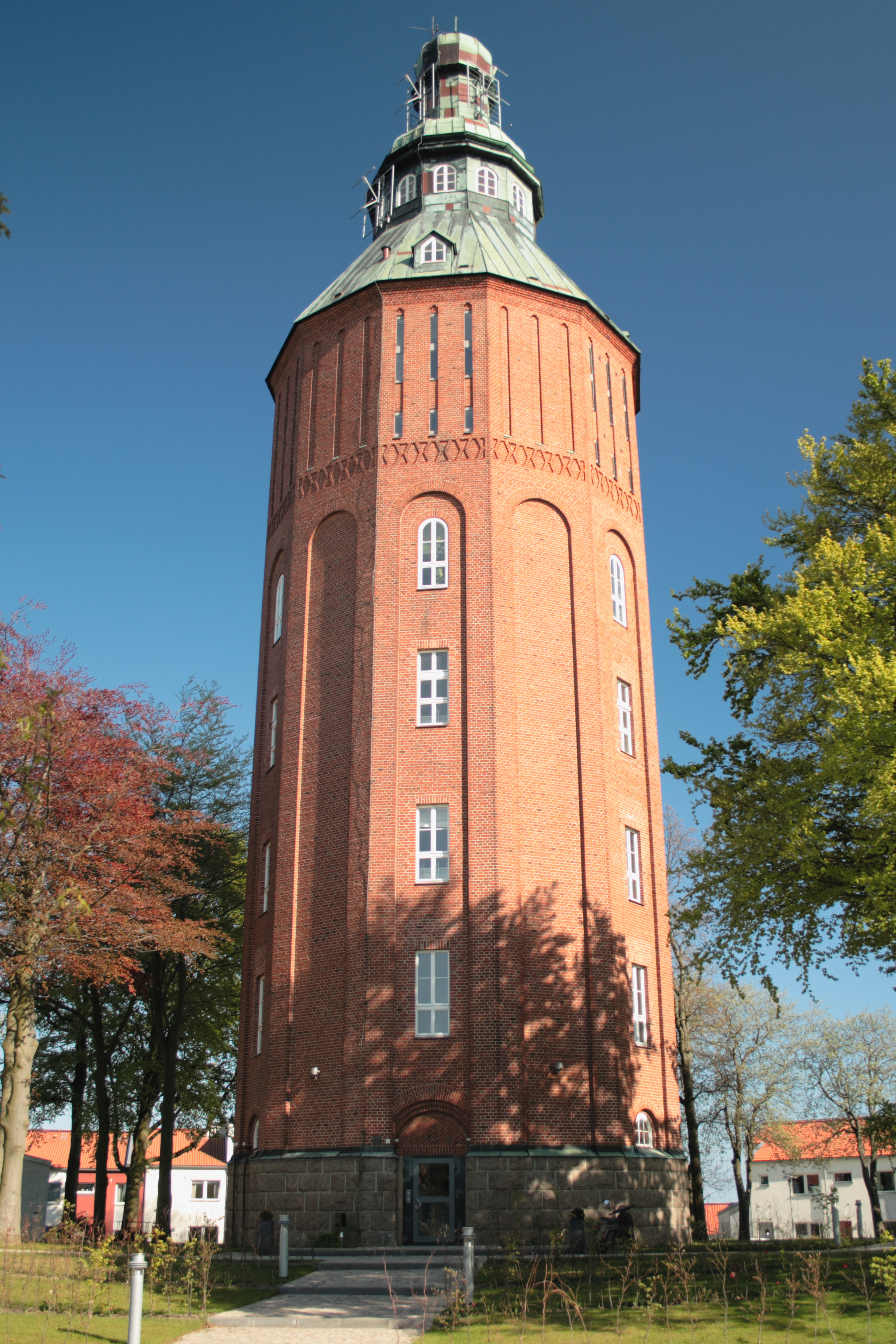 The Nappflaskan, a previous water tower in Ystad, Sweden.